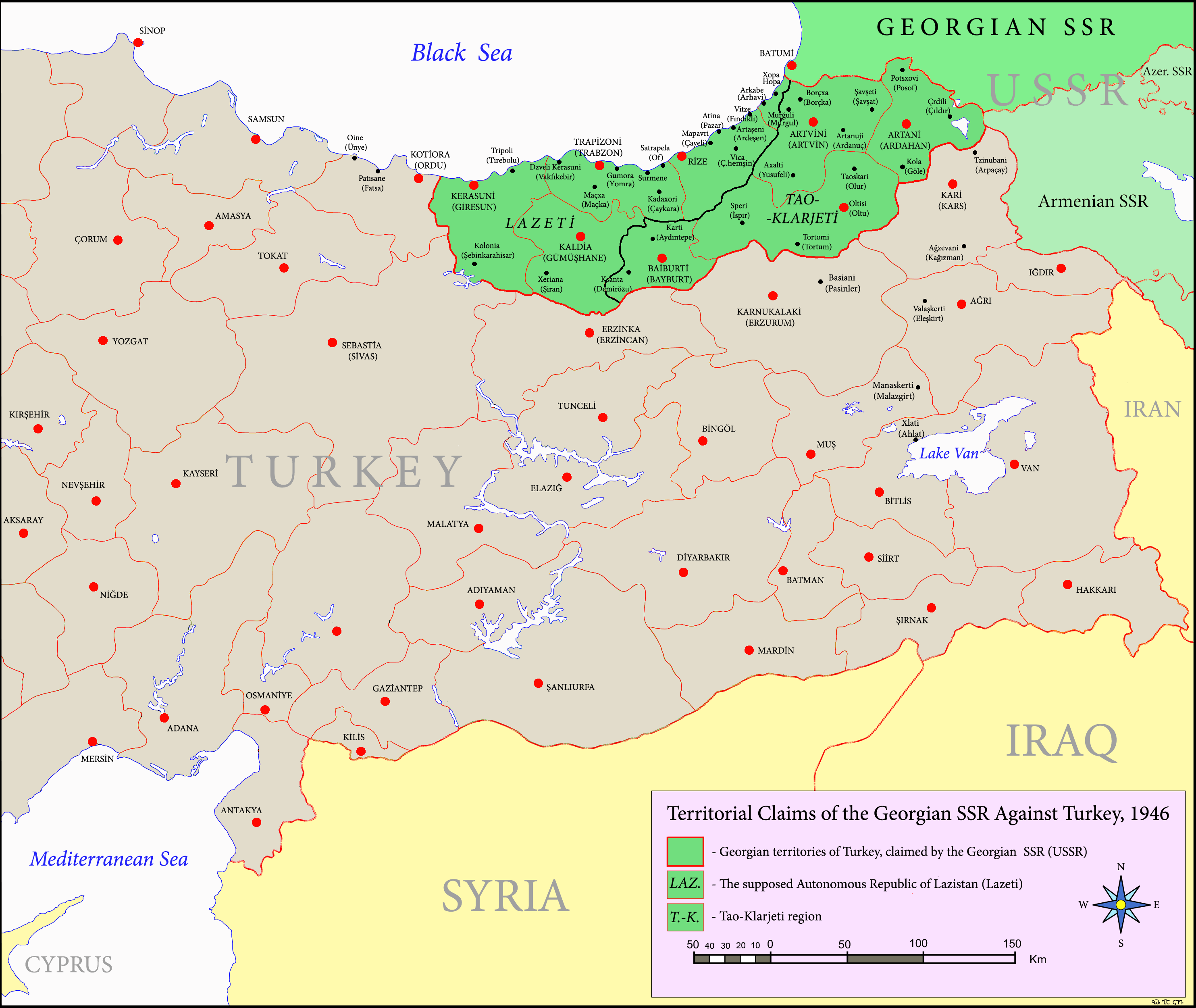 Territorial claims of the Georgian SSR (USSR) against Turkey, 1946 (Soviet territorial claims against Turkey)